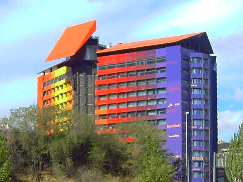 Puerta América Hotel (Madrid, Spain, built: 2003–2005). Façade designed by Jean Nouvel (born 1945).